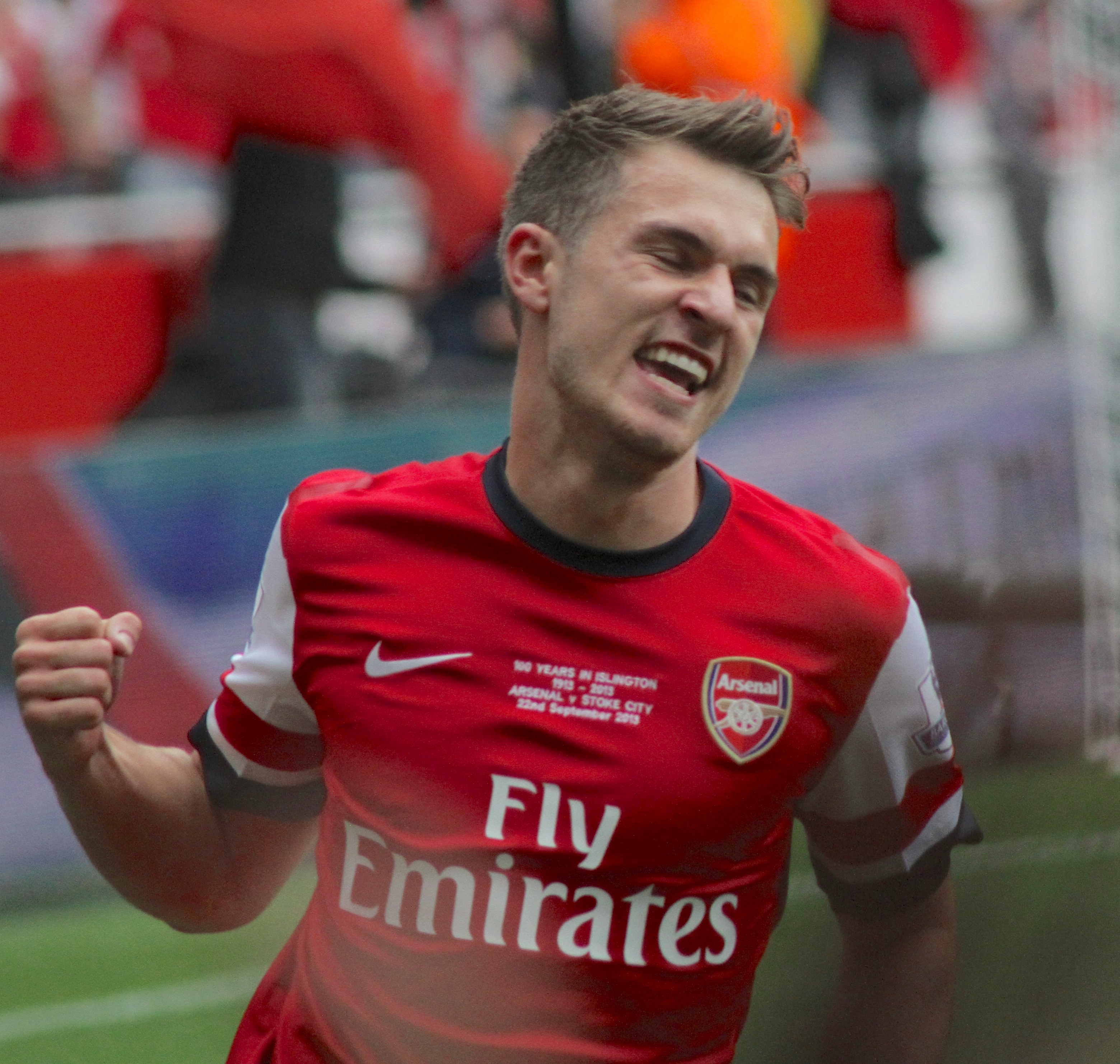 Aaron Ramsey celebrates his goal against Stoke City.